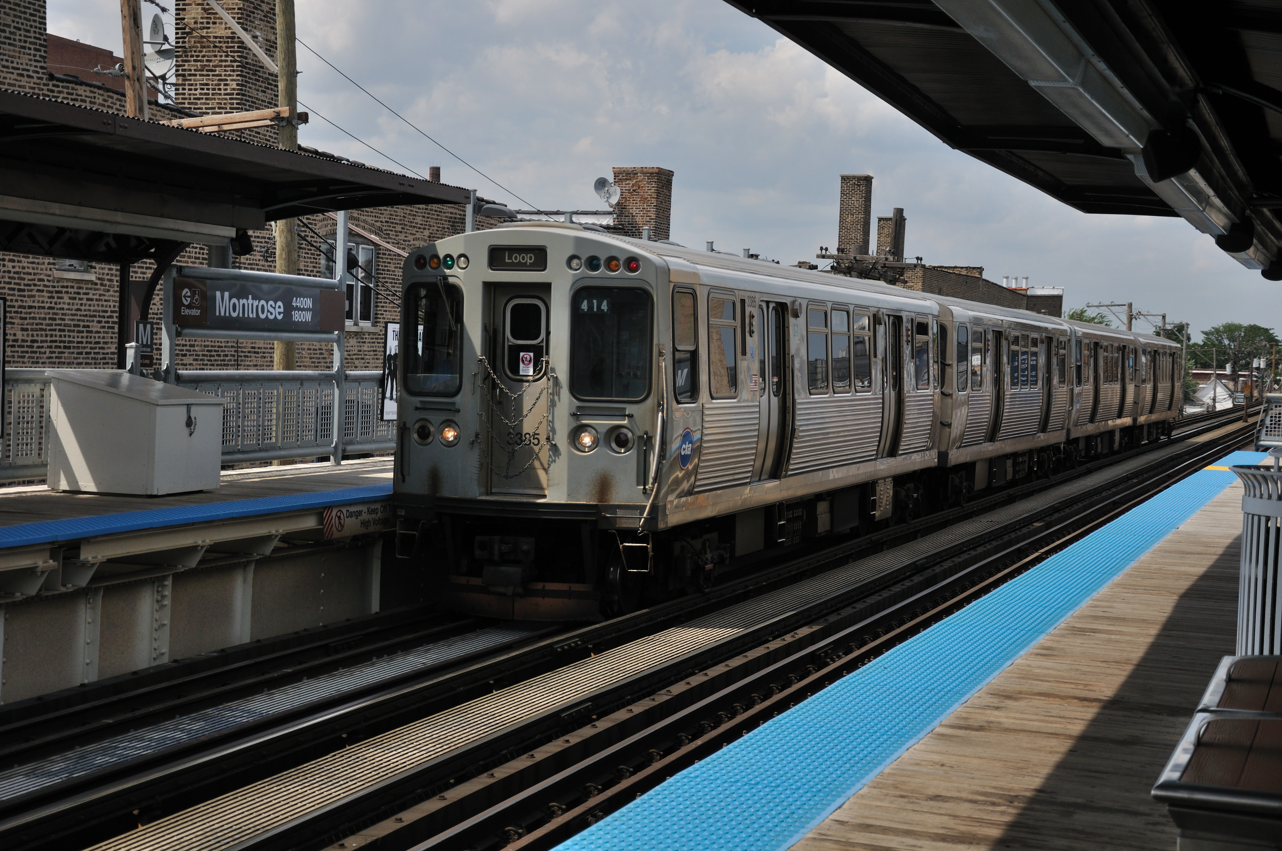 CTA Brown Line Run No. 414